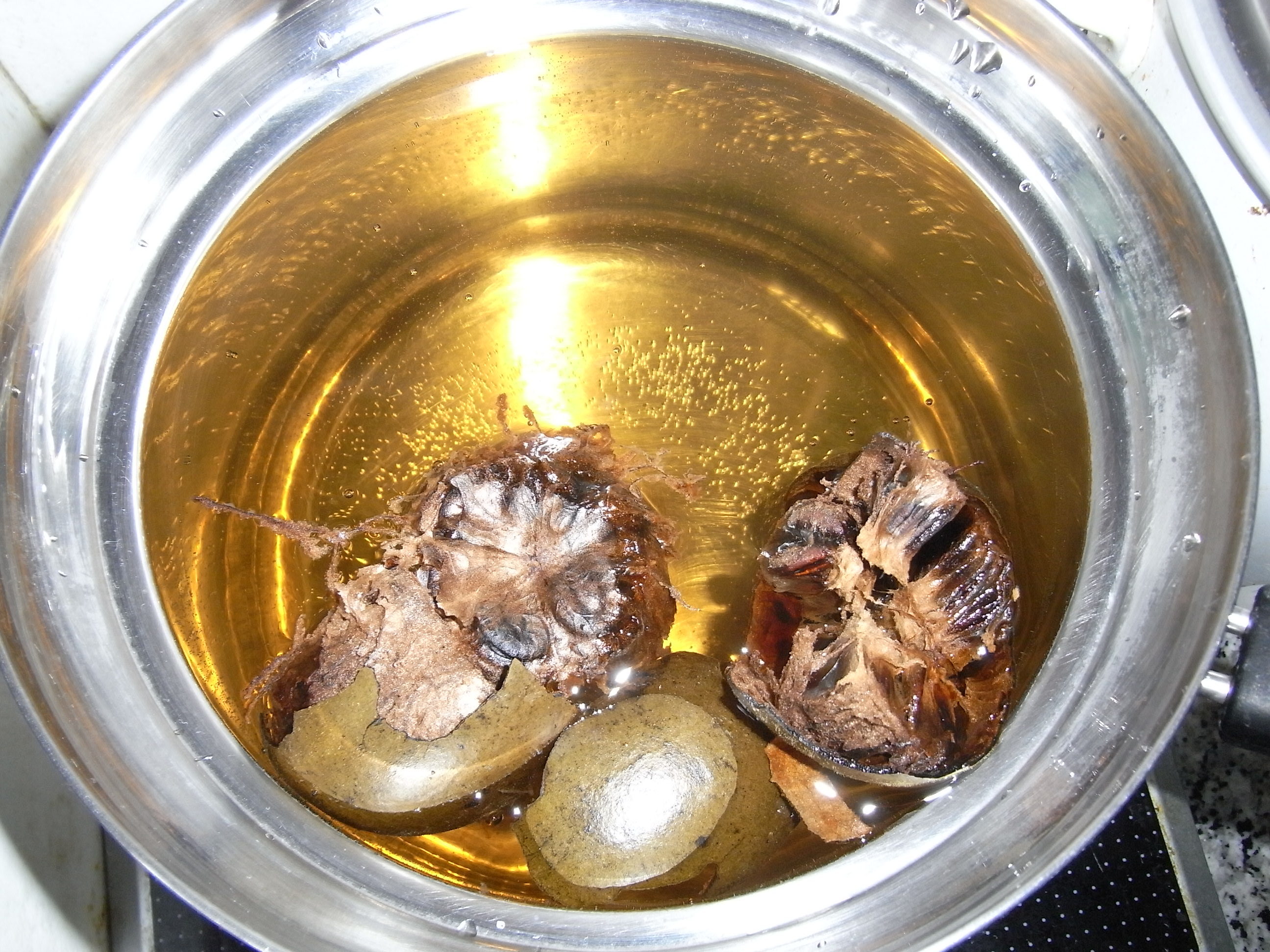 Sweet Fruit 羅漢果 Luo Han Guo 煲水 cooking water